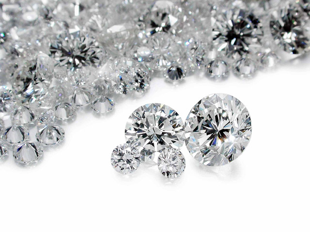 Diamonds